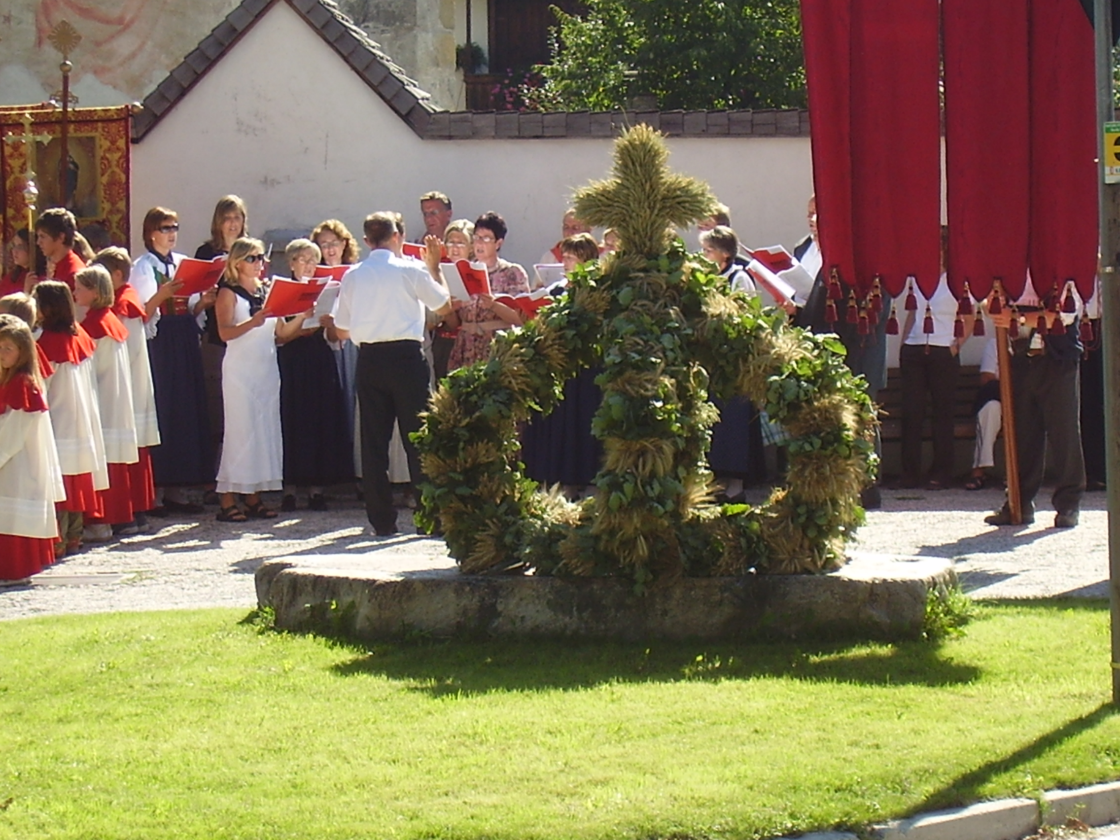 An ancient "judgement stone" in St. Georgen (Bruneck, South-Tyrol, Italy), still in use for public ceremonies: it sustains the "harvest crown" (German: "Erntekranz") during the Church's Festival ("Kirchstag")